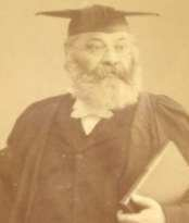 The Reverend Dr.Schiller-Szinessy, Cambridge in 1888. First picture ever of a Jew in academic wear.